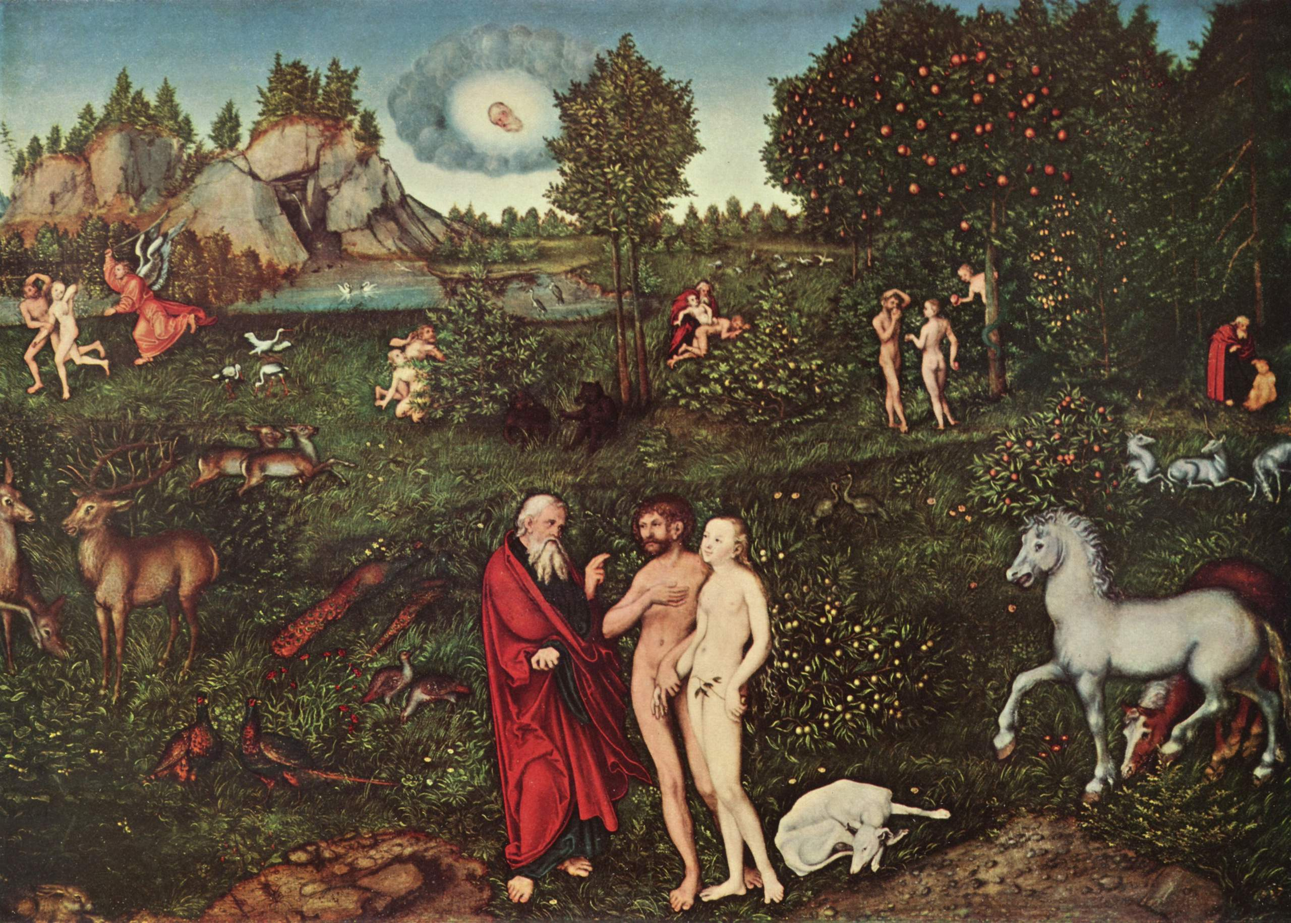 In the foreground: Prohibition of God to Adam and Eve, in the middle ground: Creation of Adam, the Fall, Discovery of the Fall, the Expulsion from Paradise